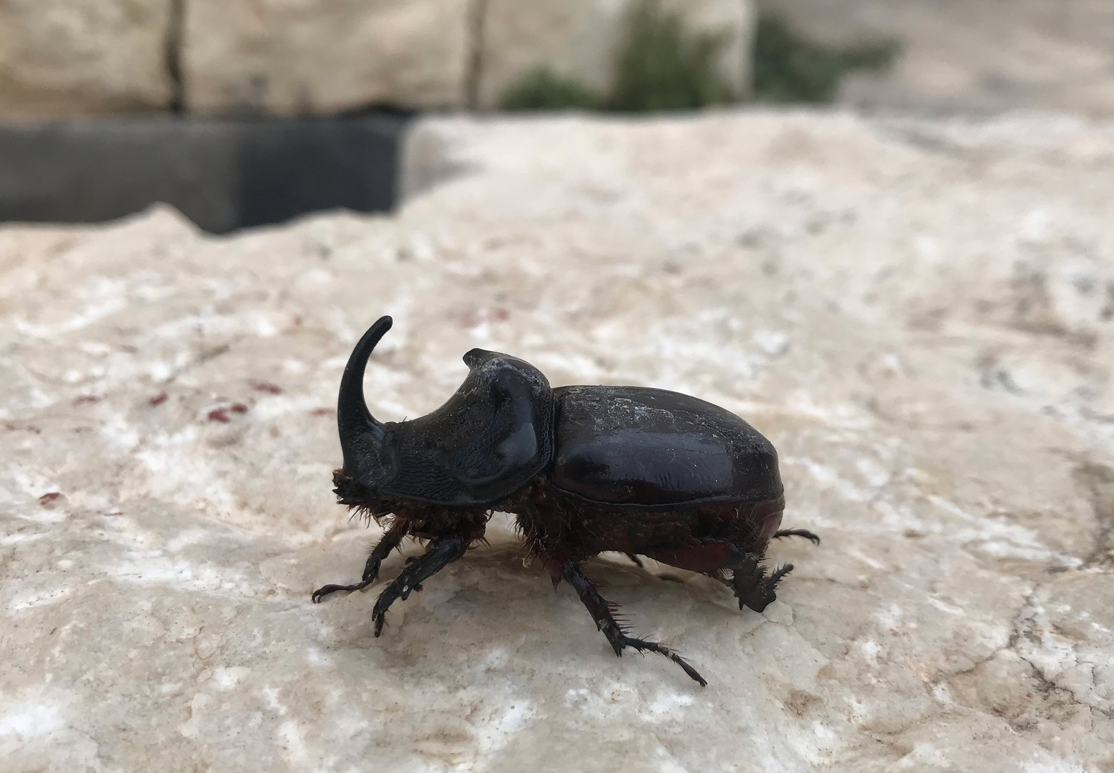 Photo of a 'rhinoceros beetle' living in the Iberian Peninsula